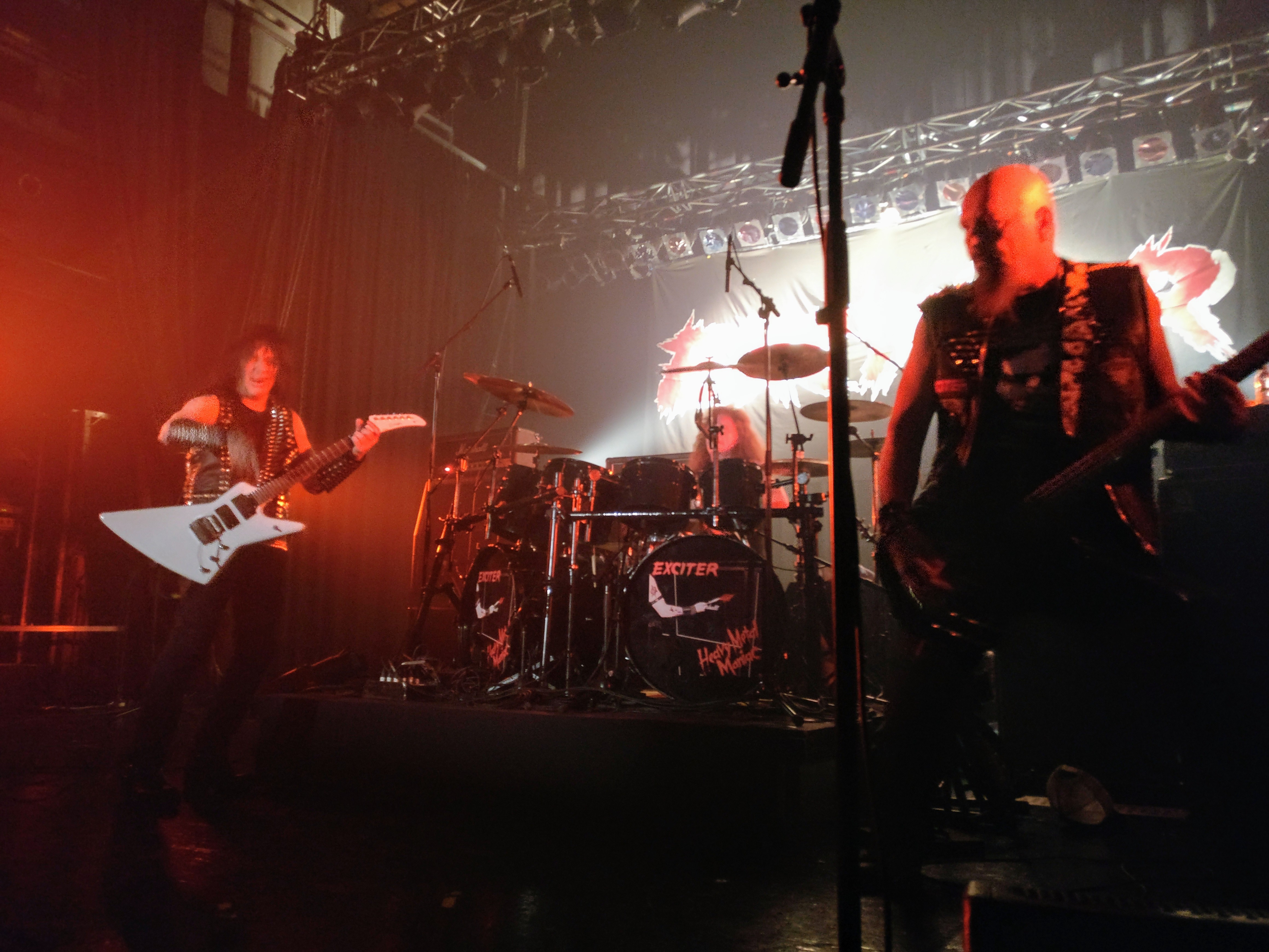 Exciter performing at Le National in Montreal, Quebec on April 7, 2018.